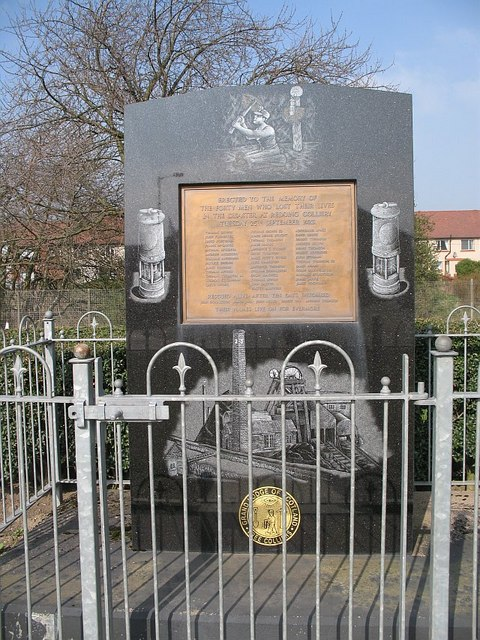 Redding Colliery Memorial 25th September 1923, the colliery was flooded, trapping many miners, killing 40. The memorial commemorates the dead: John Forrester, David Porteous, Frank McGarvie, Michael McKenna, Andrew Anderson, William Anderson, Patrick Shields, James Hannah, Thomas Aitken, Thomas Thomson junr., Thomas Kilgannan, David Brown, Thomas Brown, John Lennie Wright, Thomas Thomson (2), James Marrs, Laurence T. Scobbie, David Thomson, Jas. Scott Irving, Alex. Hamilton, Laurence Thomson, William Donaldson, Colin Maxwell, senr., Thomas Bonar, John Baxter, Walter Maxwell, Archibald McNee, David Bennie, Robert Thomson, Andrew Brown, Henry Thomson, Robert Beveridge, John Beekman, Thomas Thomson (1), James Adam, Colin Maxwell, junr., Michael McLaughlin, James Jarvie, James Cochrane, and while 25 were rescued on the day, the memorial also commemorates five men who were finally rescued after being trapped for 10 days. The memorial was erected by the Sir William Wallace Grand Lodge of Free Colliers.